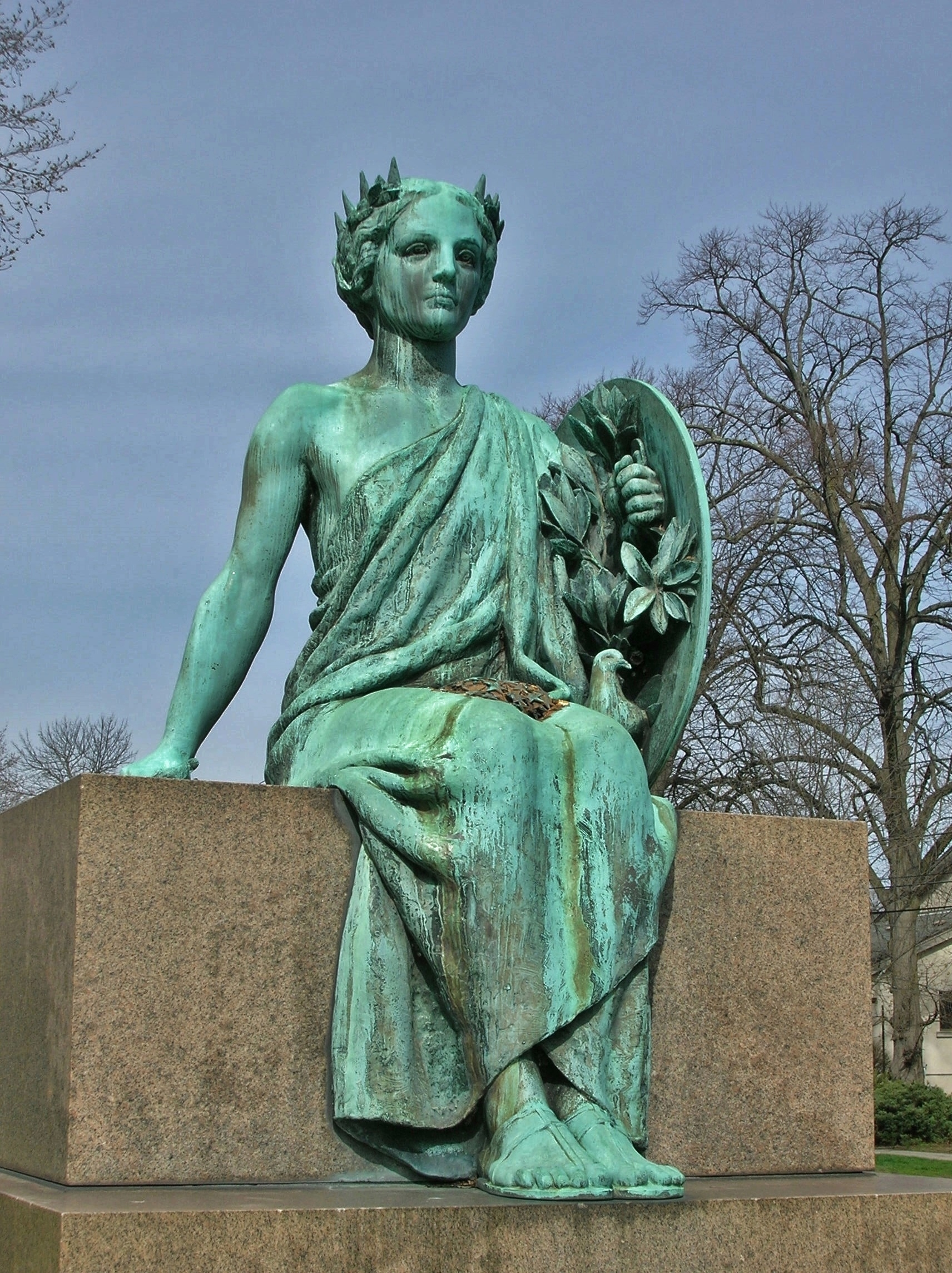 Photograph of the War Memorial in Stratford, CT, sculpted by Willard Paddock, dedicated in 1931.